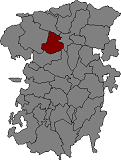 Location of Vallcebre in Berguedà